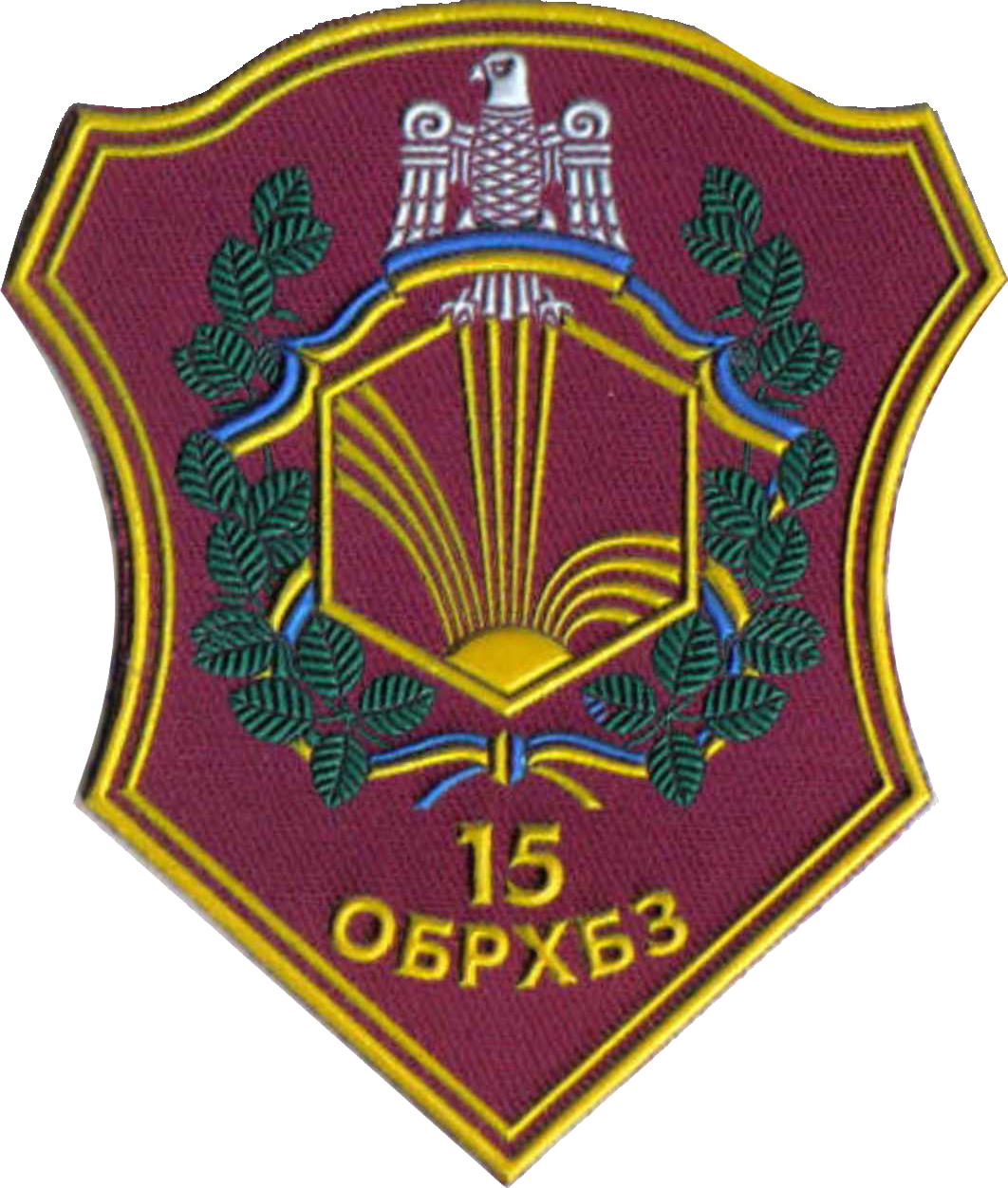 Shoulder sleeve insignia of the 15th Chemical Battalion of the Ukrainian Army 66th Mechanized Infantry Division